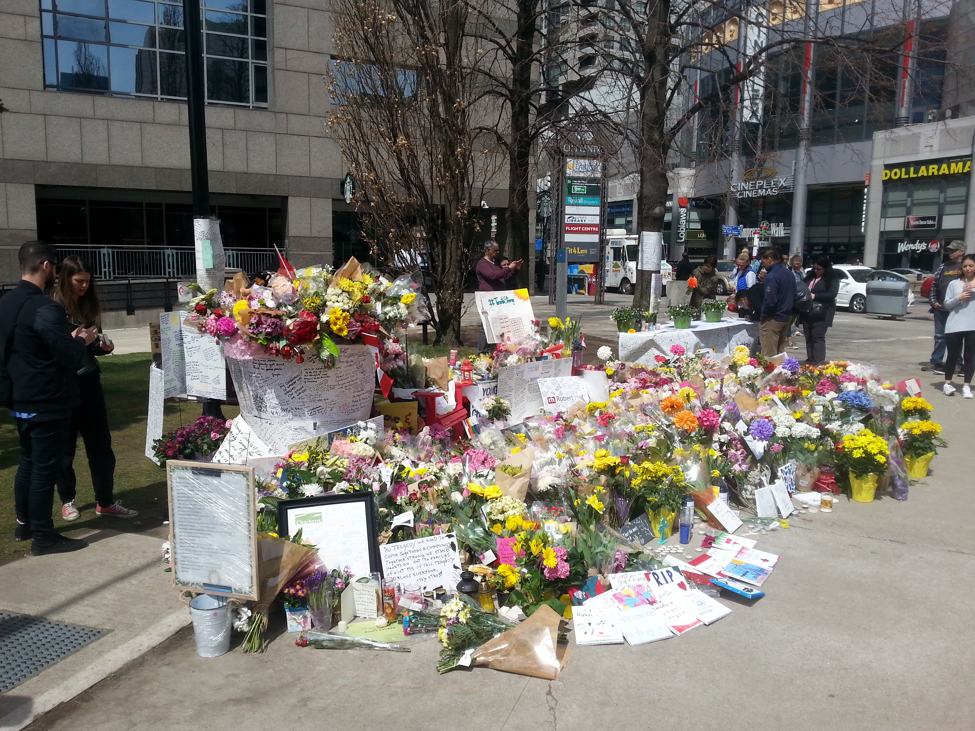 Torontostrong memorial in Olive Square, North York, April 27, 2018.